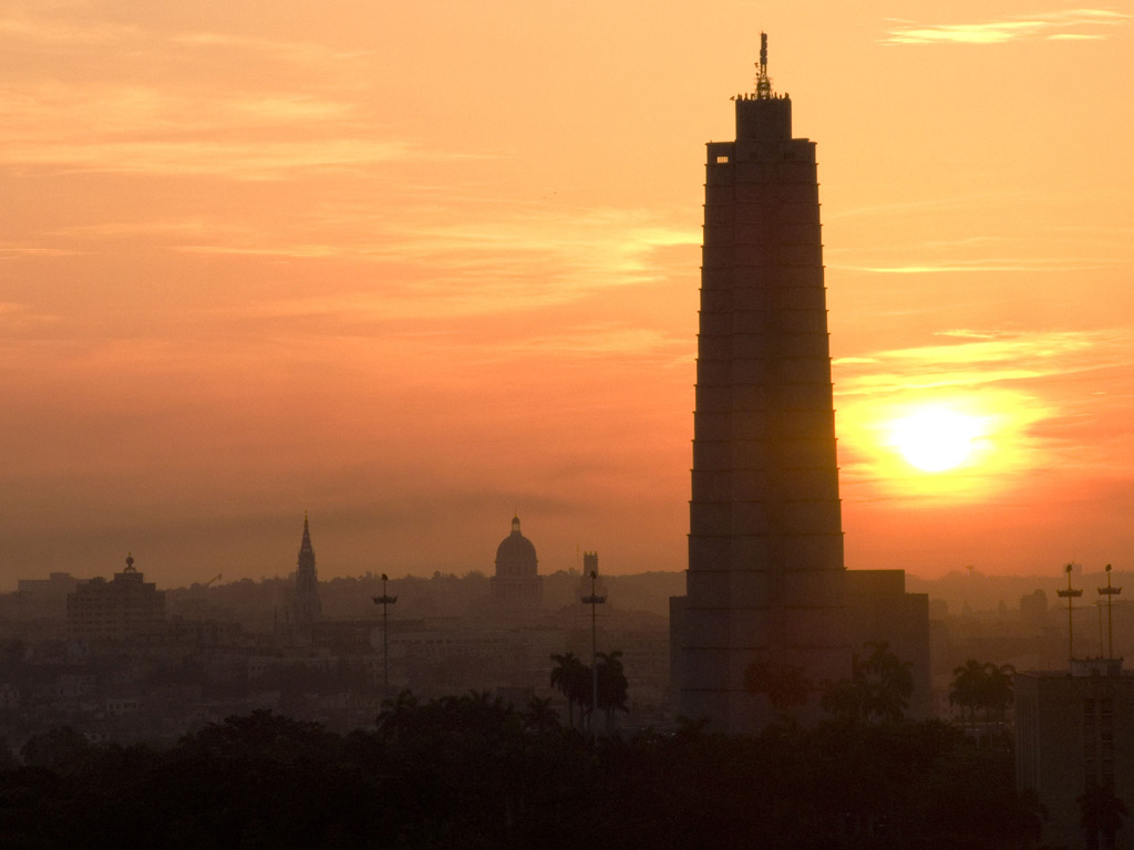 Sunrise in havana